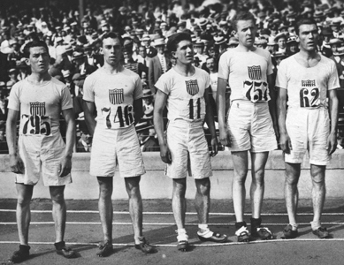 The 3,000-metres relay winners at the 1912 Olympics. Left-right: Abel Kiviat, Norman Taber, Louis Scott, Tell Berna, George Bonhag